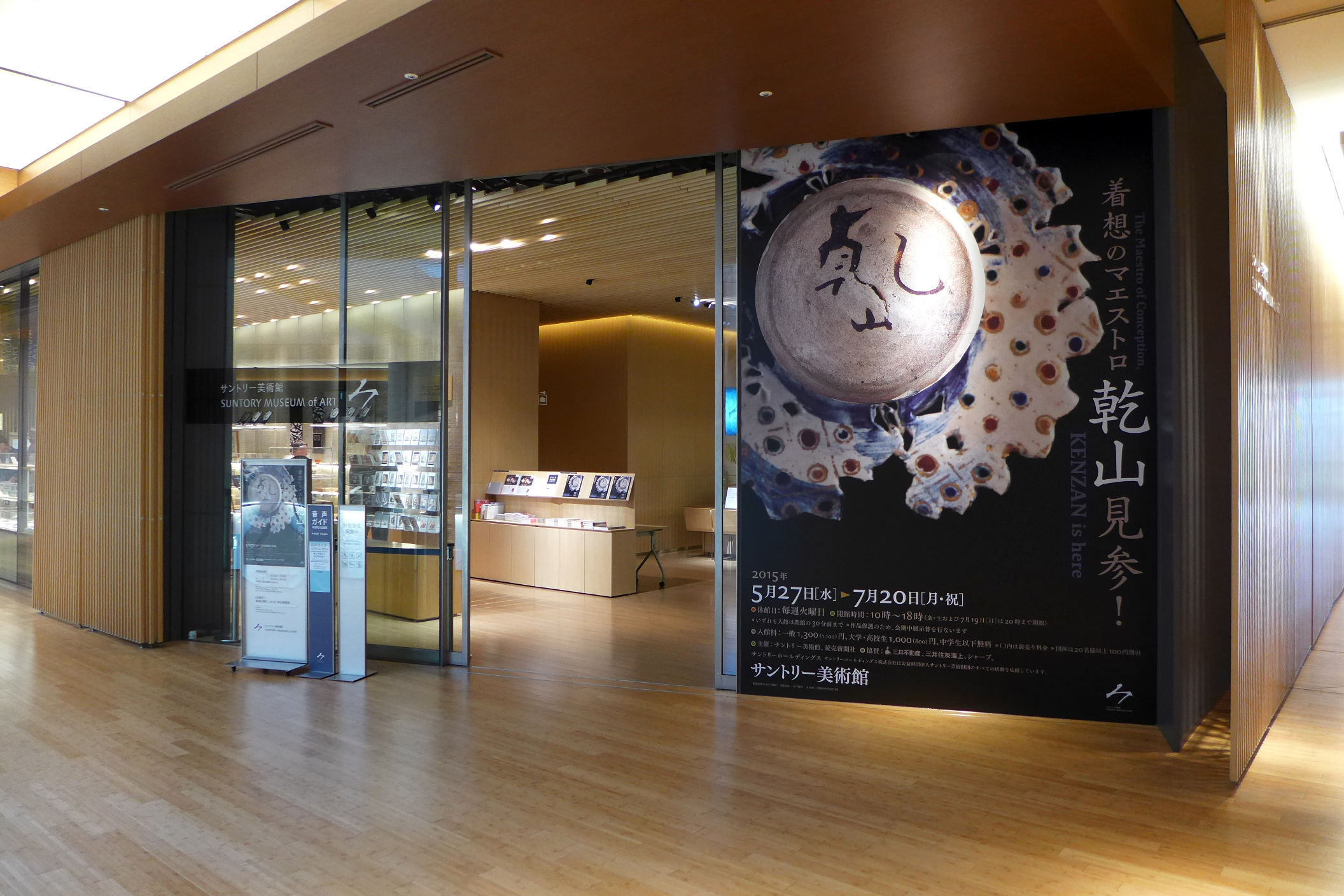 Suntory Museum of Art